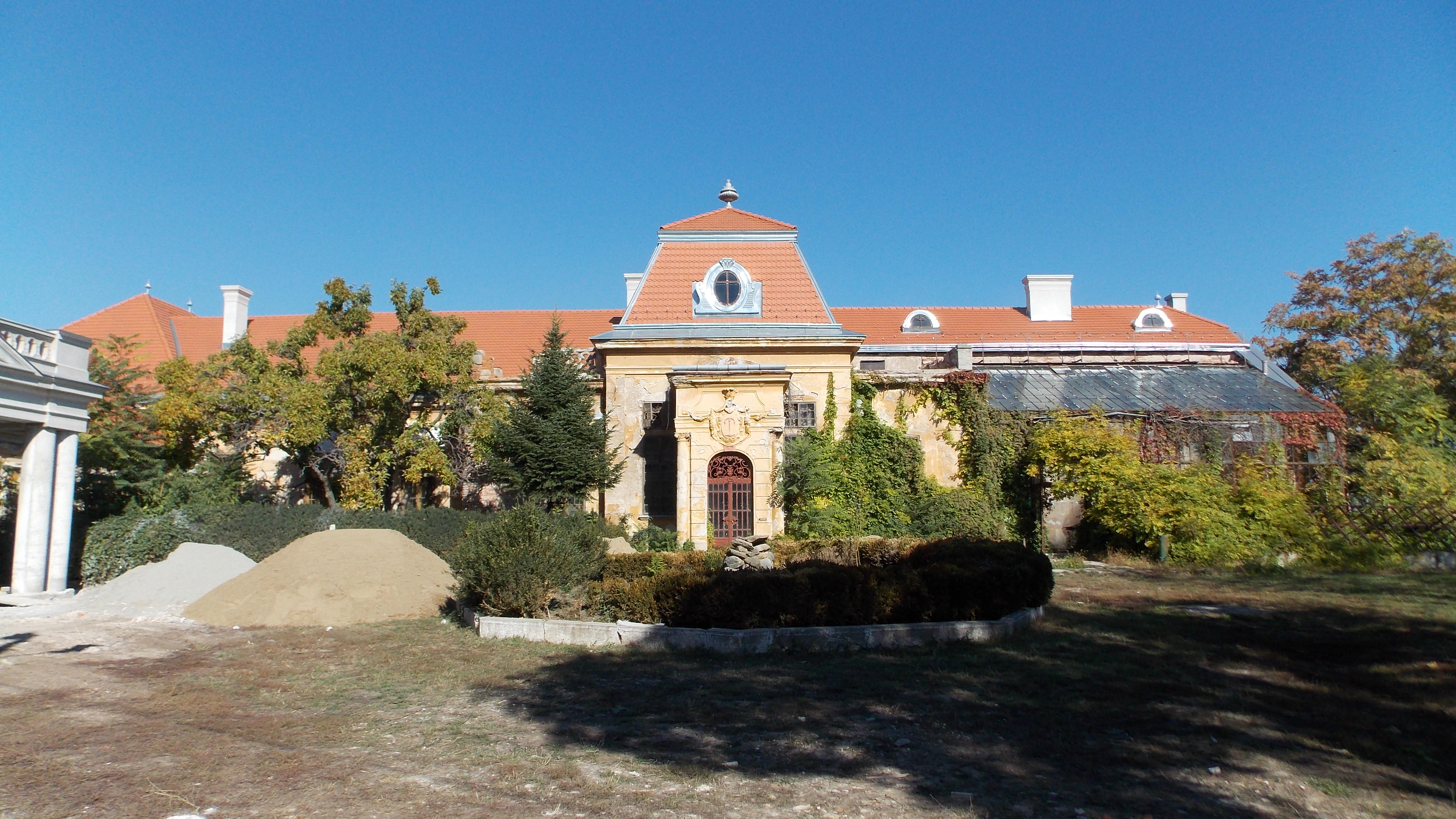 Stubenberg Palace, Săcueni, Bihor County, Romania.